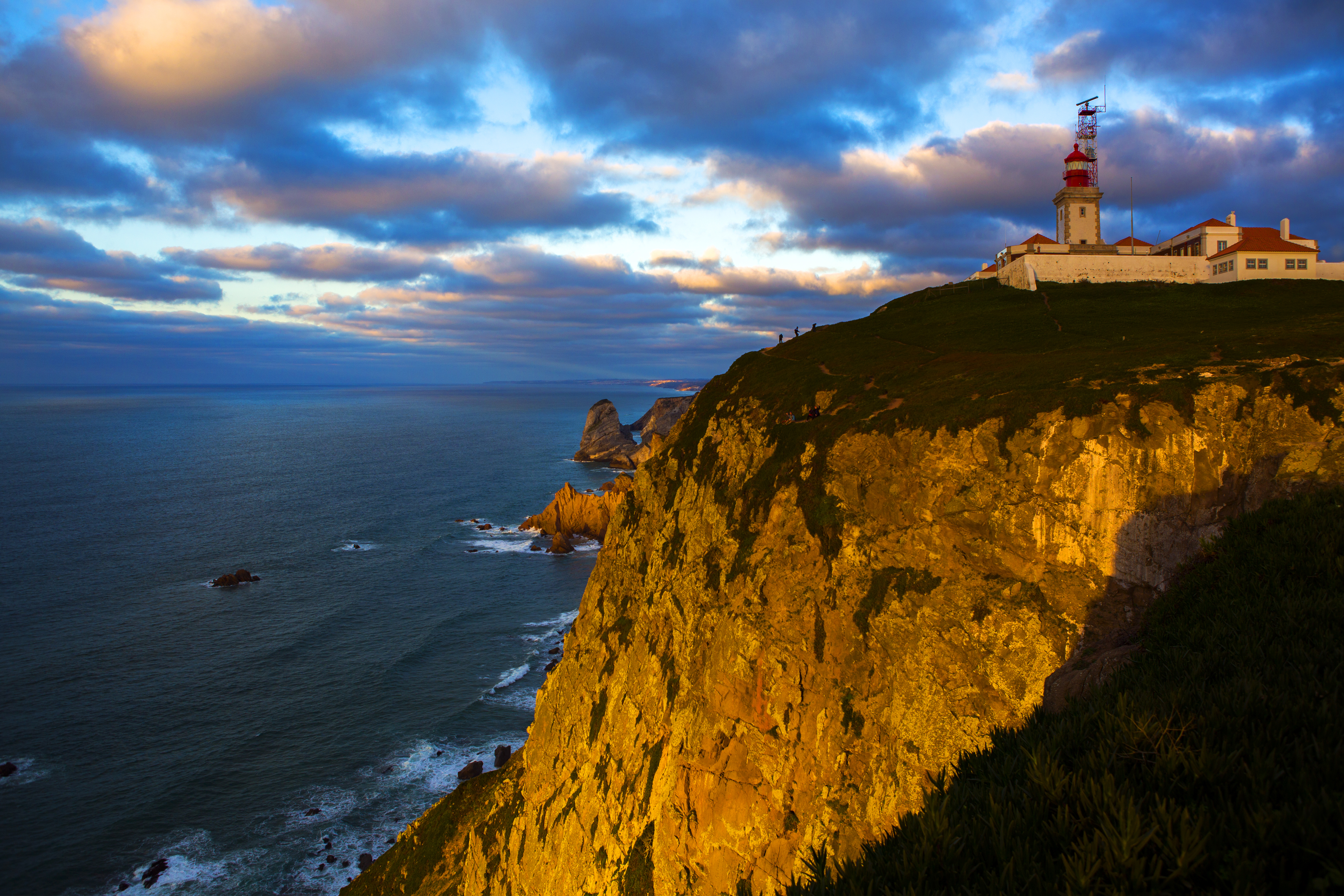 Portugal, Cabo da Roca - the westernmost extent continental Europe and the Eurasian mainland.